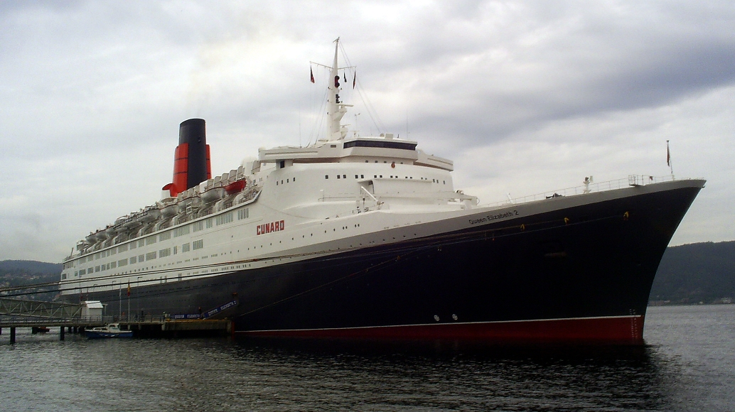 The RMS Queen Elizabeth 2 during a port visit in Trondheim, Norway on June 20, en:2006. Picture taken and released into the public domain by User:Kallemax.